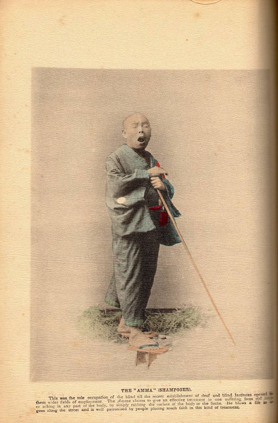 Illustrations of Japanese Life Reproduced by K. by K. Ogawa Descriptions by S. Takashima Hand-colored Collotypes (12) on Crepe Paper [Focus on Women & Children - Pastimes & Customs] In numerous editions (1~12 - 1896~1918), 8vo, 12 hand-colored collotypes on crepe paper.